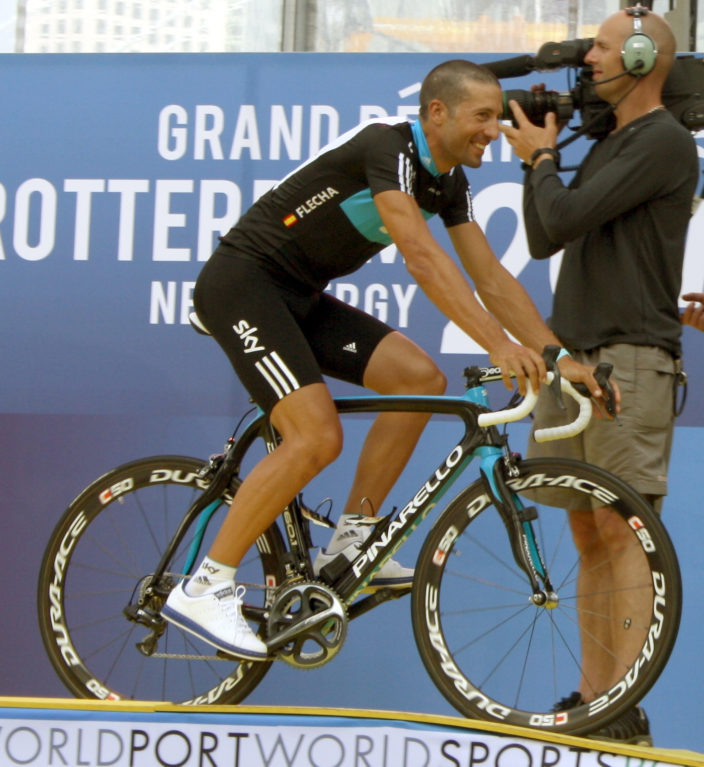 Juan Antonio Flecha at the team presentation of the 2010 Tour de France in Rotterdam